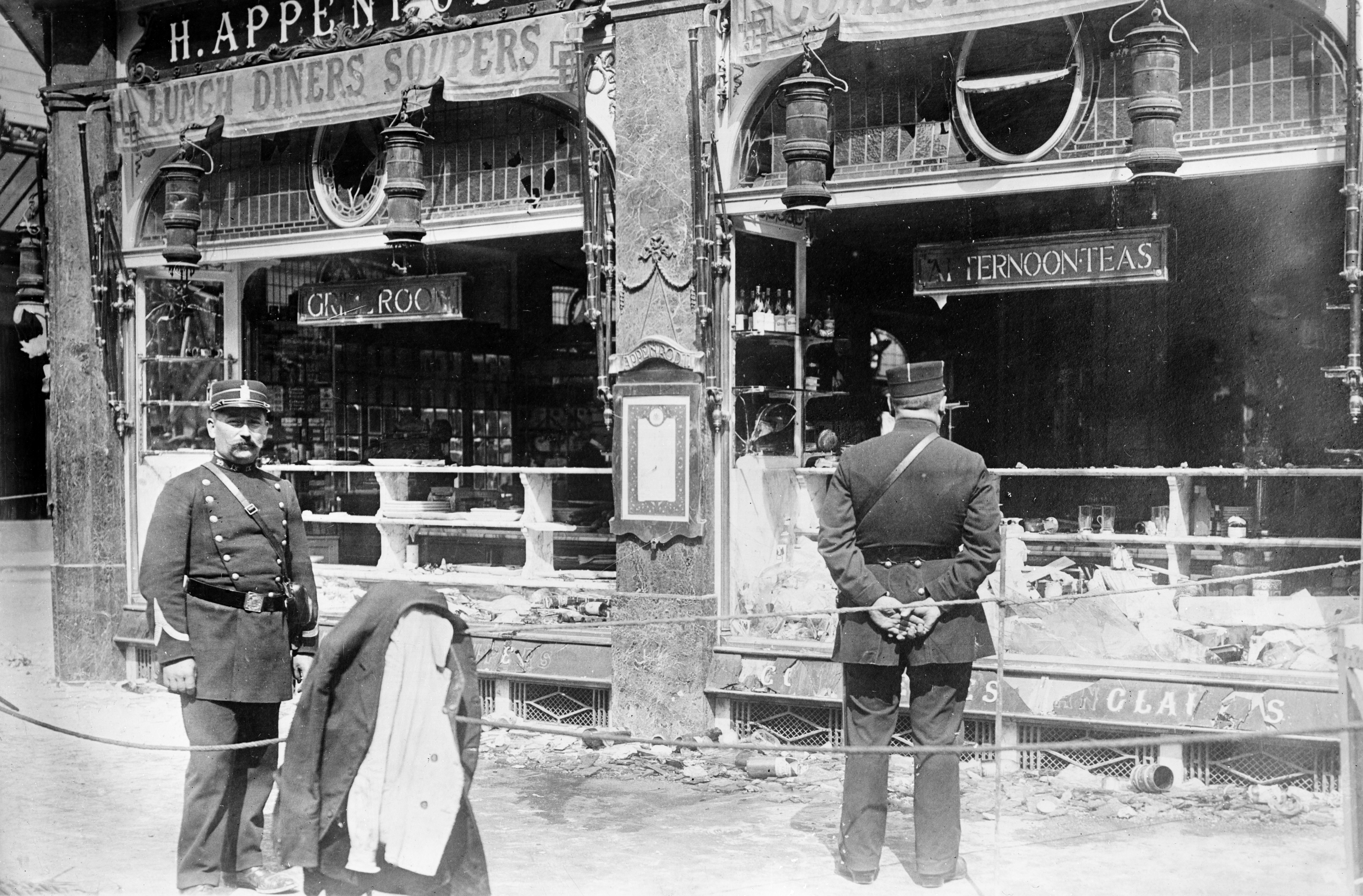 Paris -- German Shop smashed by mob Photograph shows Appenrodt's restaurant, which was owned by H. Appenrodt on the Boulevard des Italiens in Paris, France. The restaurant was attacked by a French mob who thought the owner was a German national, during the early days of World War I.